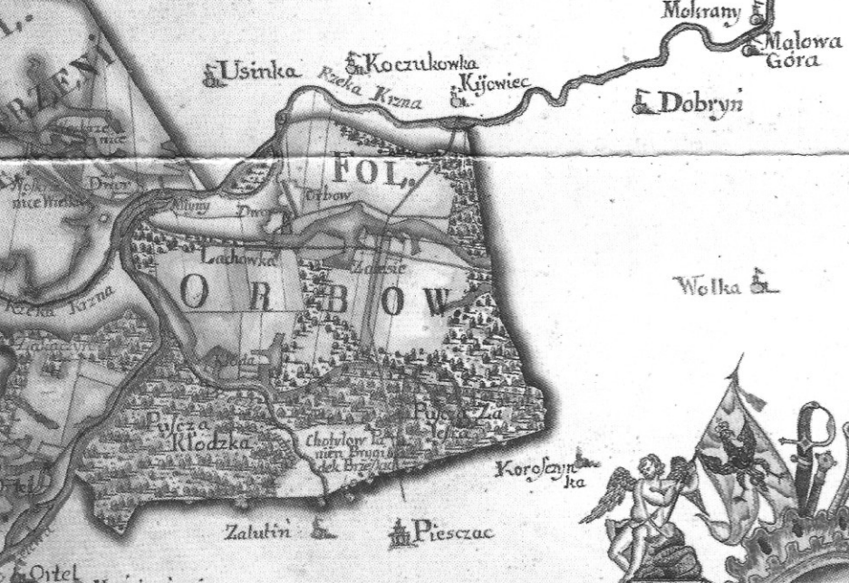 The plan of folvark Hobov in 1781 year.